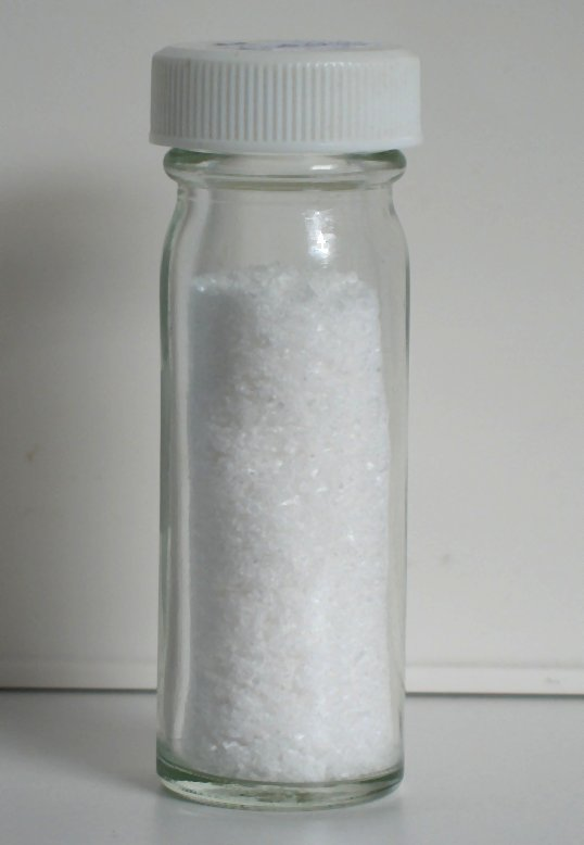 25 grams of caesium perchlorate